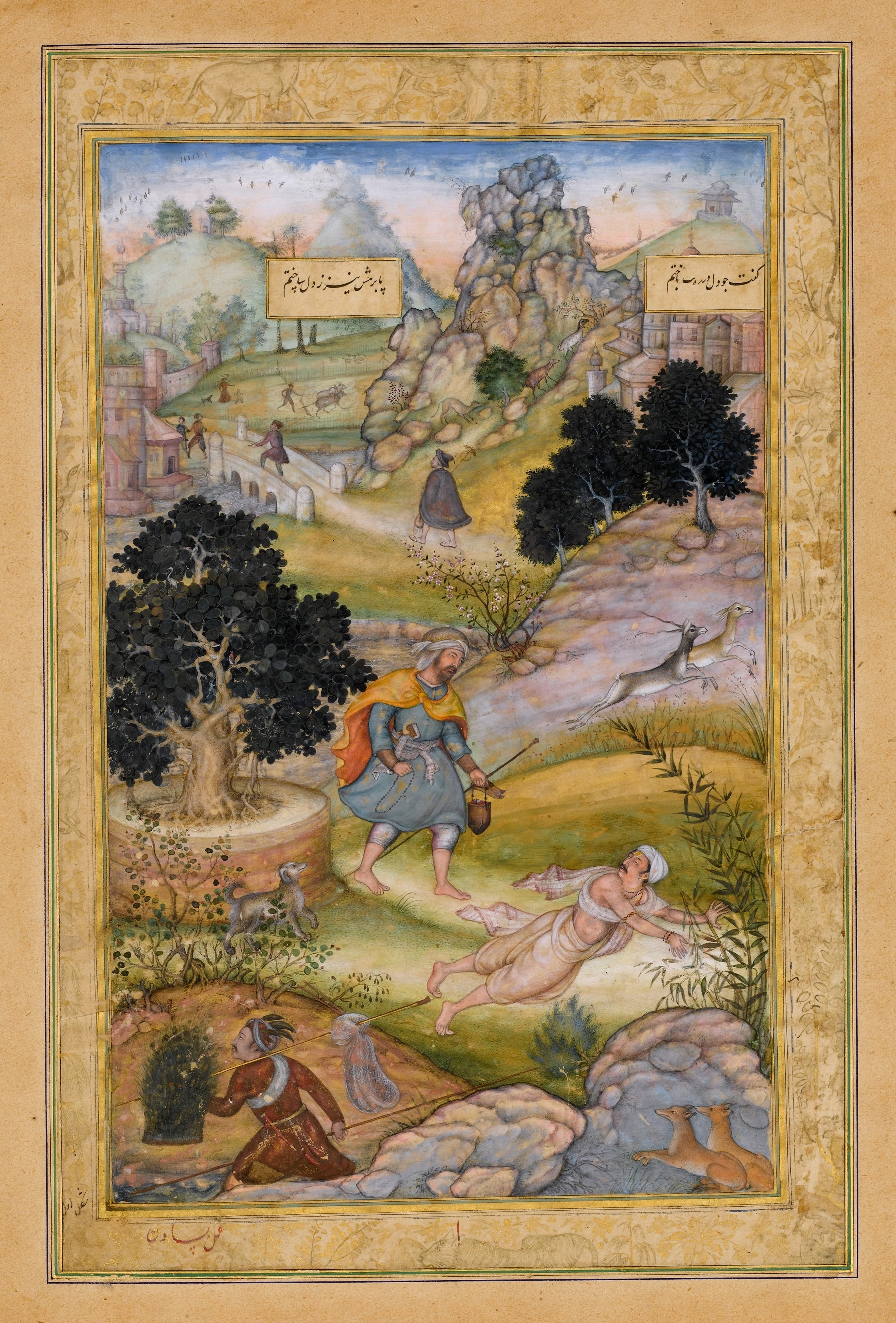 Basawan. A Muslim Pilgrim Learns a Lesson in Piety from a Brahman, Folio from a Khamsa (Quintet) of Amir Khusrau Dihlavi 1597-98 Metropolitan Museum N-Y